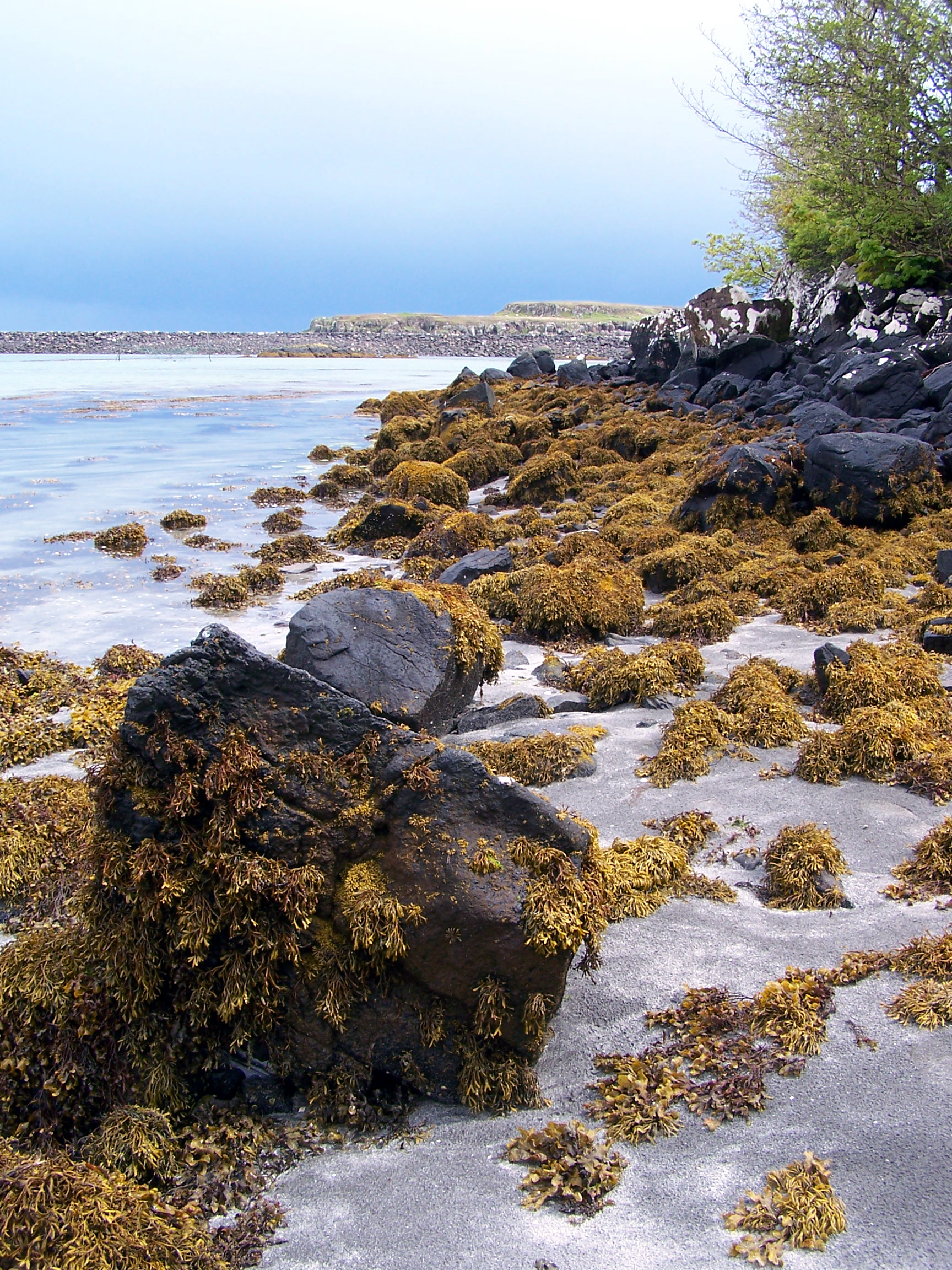 Eigg Harbour